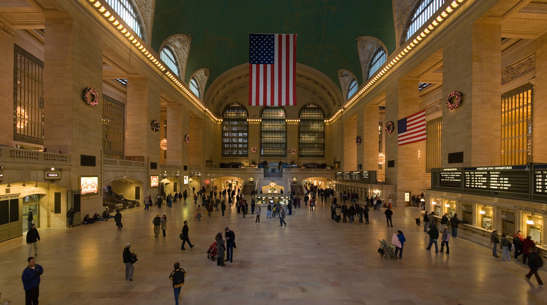 A 4 segment Panoramic view of the Grand Central Terminal Main Concourse in New York City, New York, United States. Taken with a Canon 5D and 24-105mm f/4L IS lens.